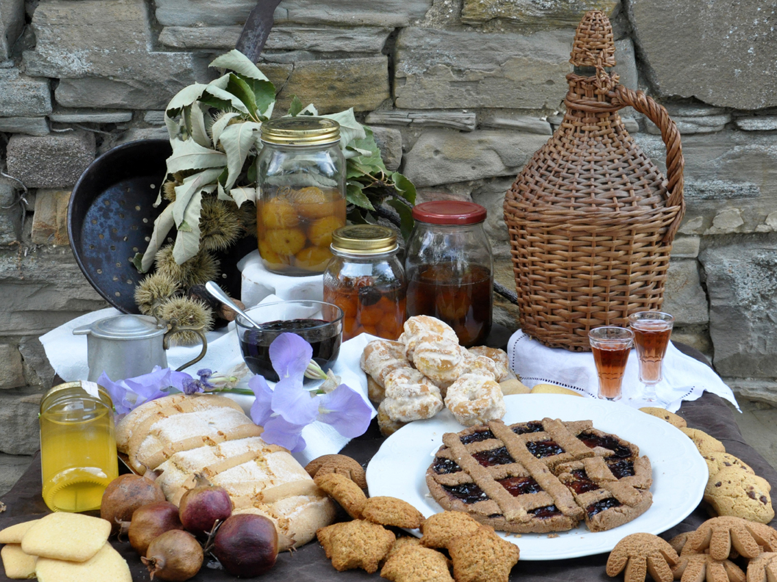 A composition created in 2013 by Letizia Rivetti and Marco Ruggeri